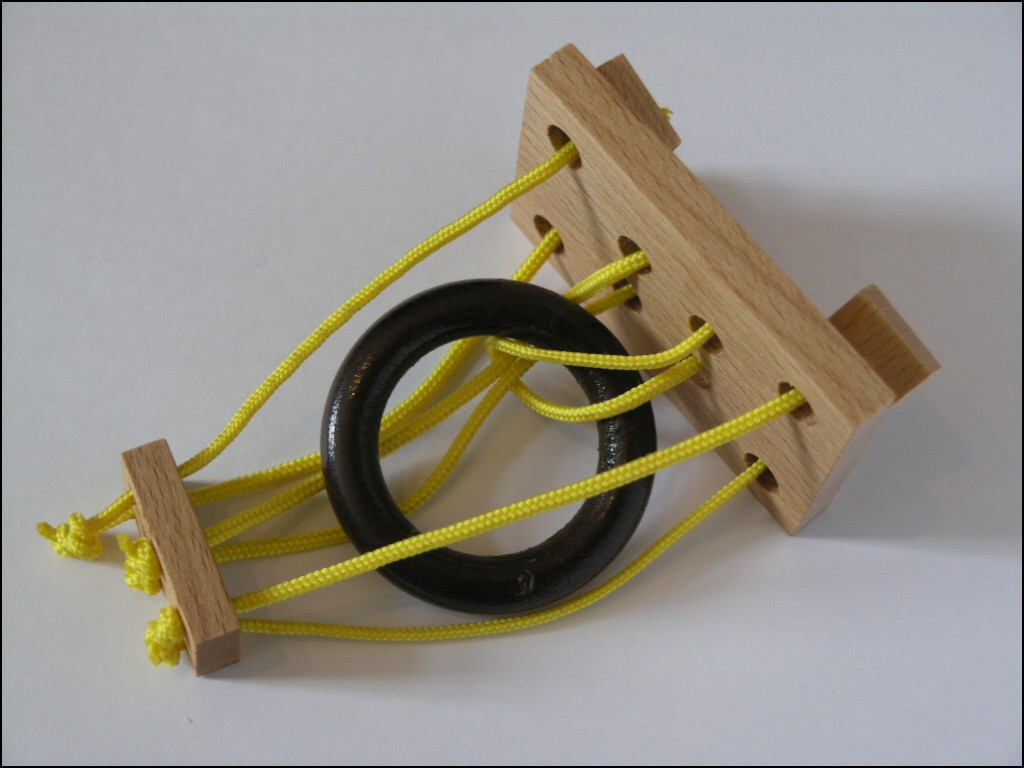 wooden corded puzzles